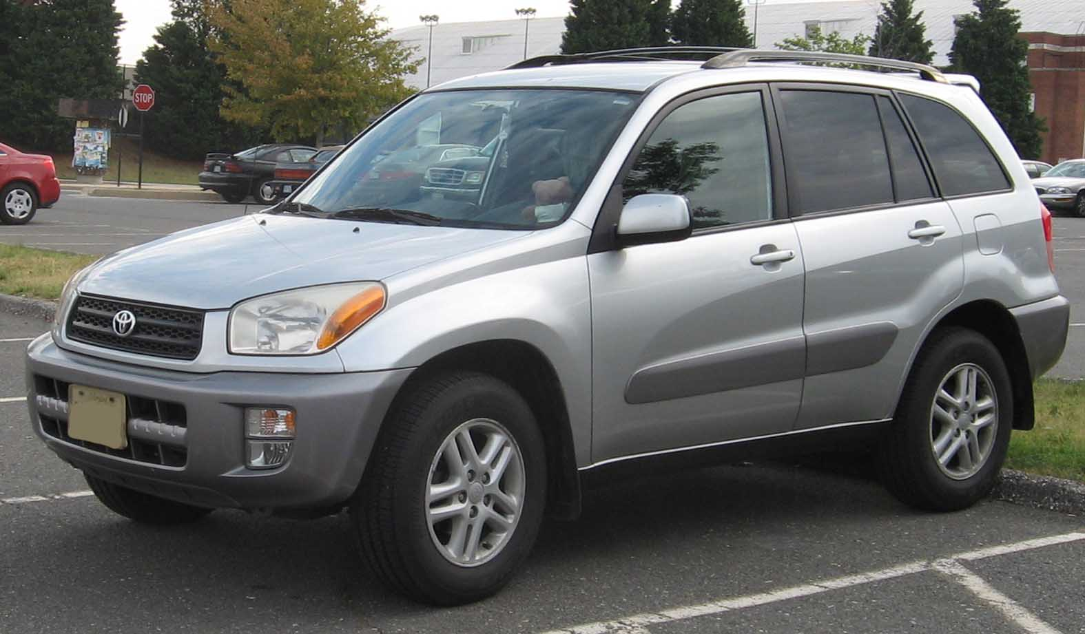 2001-2003 Toyota RAV4 photographed in College Park, Maryland, USA.